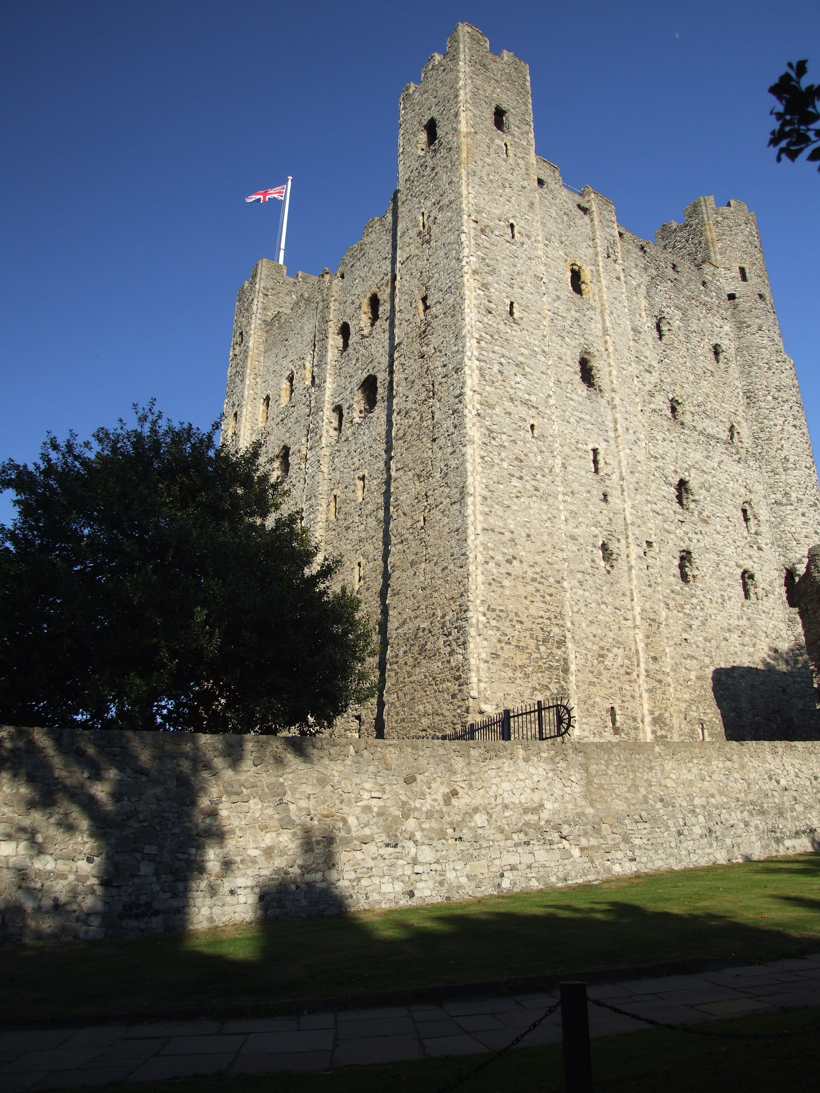 Rochester Castle The road between the bailey and Boley Hill- drum tower and behind it the rebuilt round corner to the keep